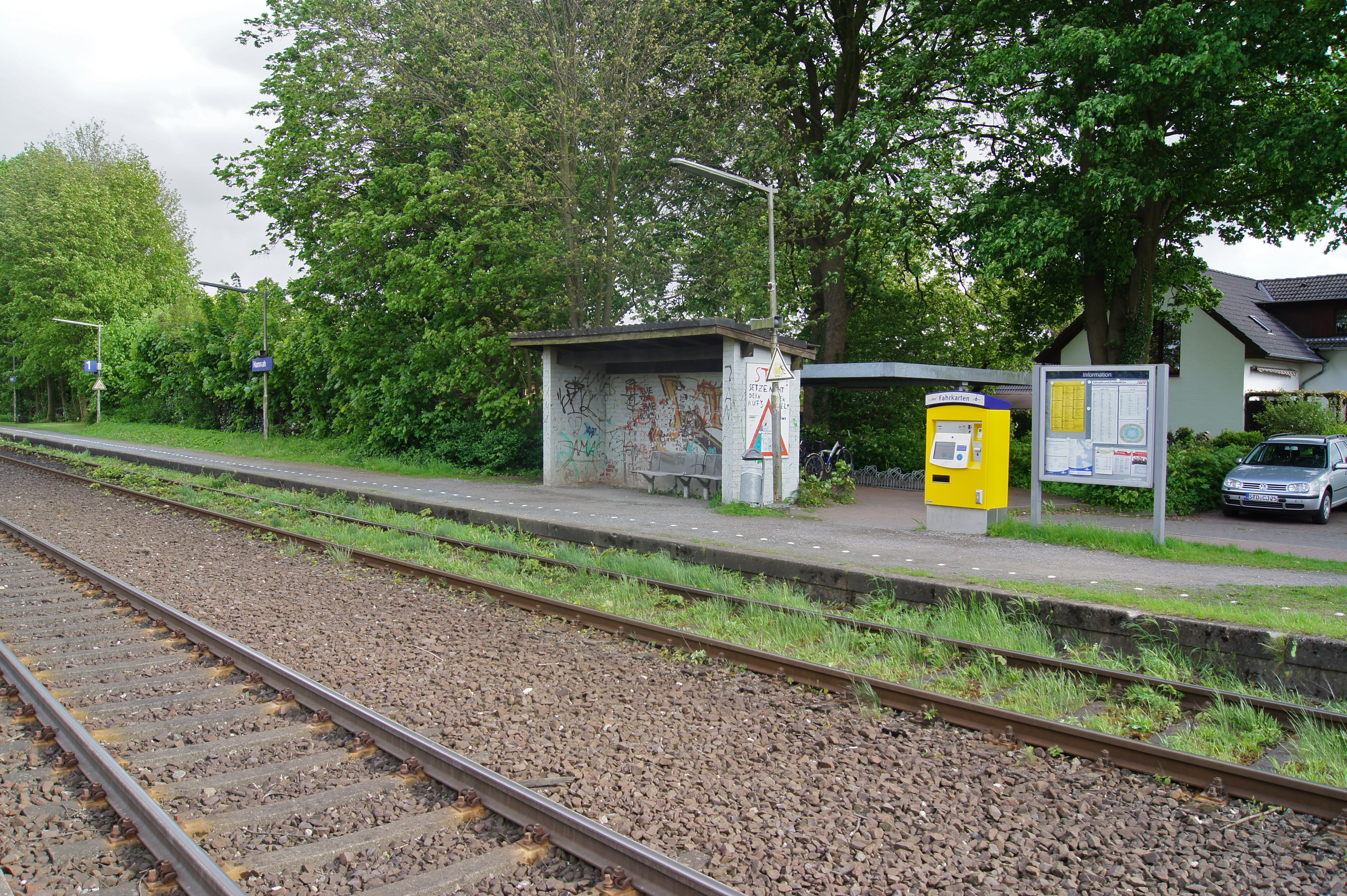 Hammah, Germany: Railway station on the Lower Elbe Railway